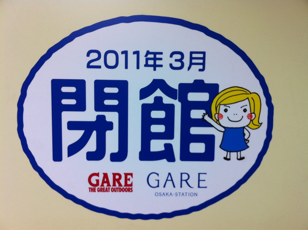 GARE, 3-1-1 Umeda Kita-ku Osaka-City Osaka Japan.